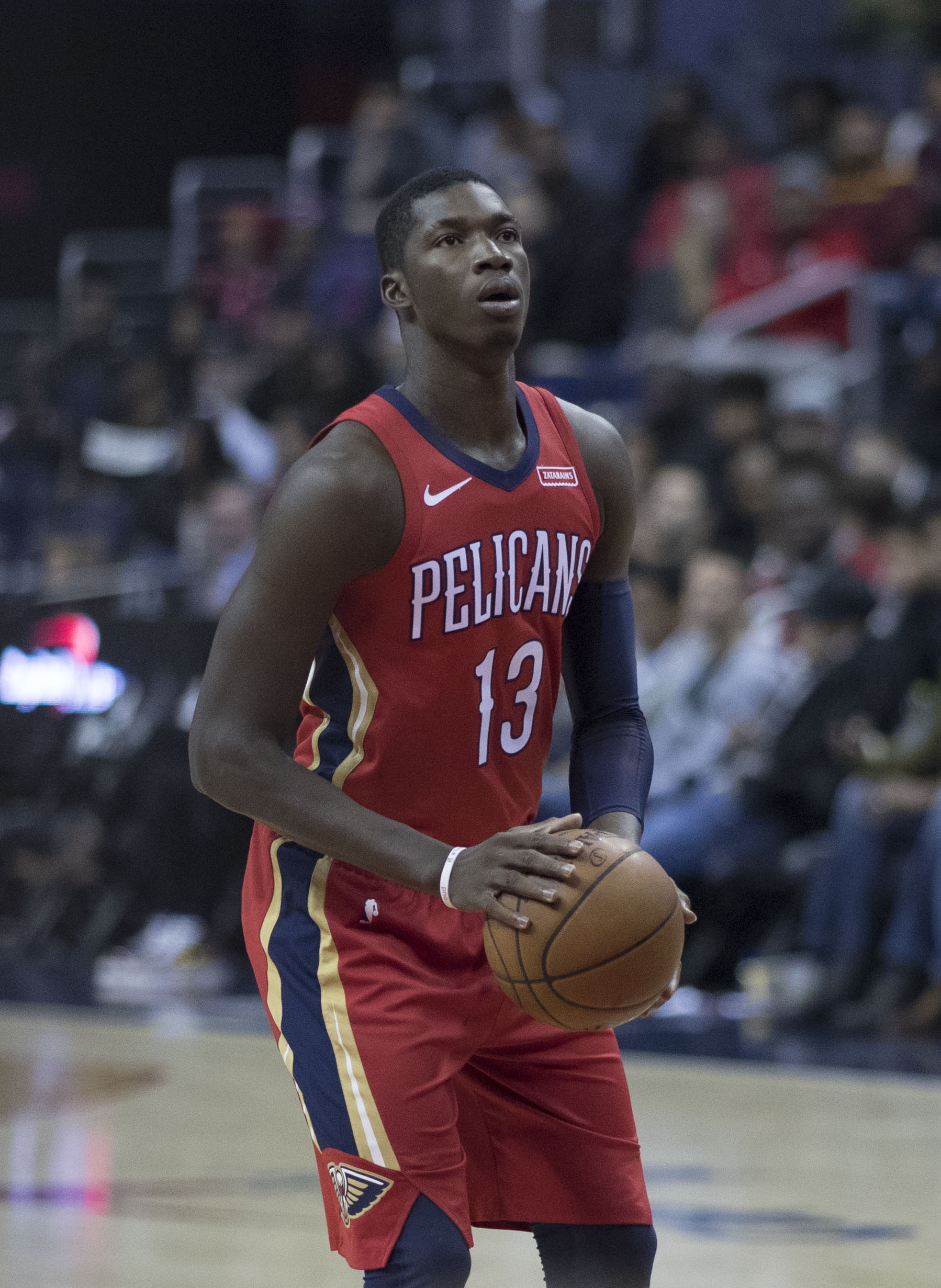 Pelicans at Wizards 12/19/17